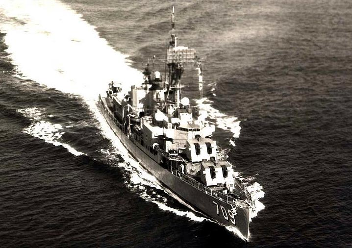 The U.S. Navy destroyer USS Hugh Purvis (DD-709) at sea, sometime in the 1960s.